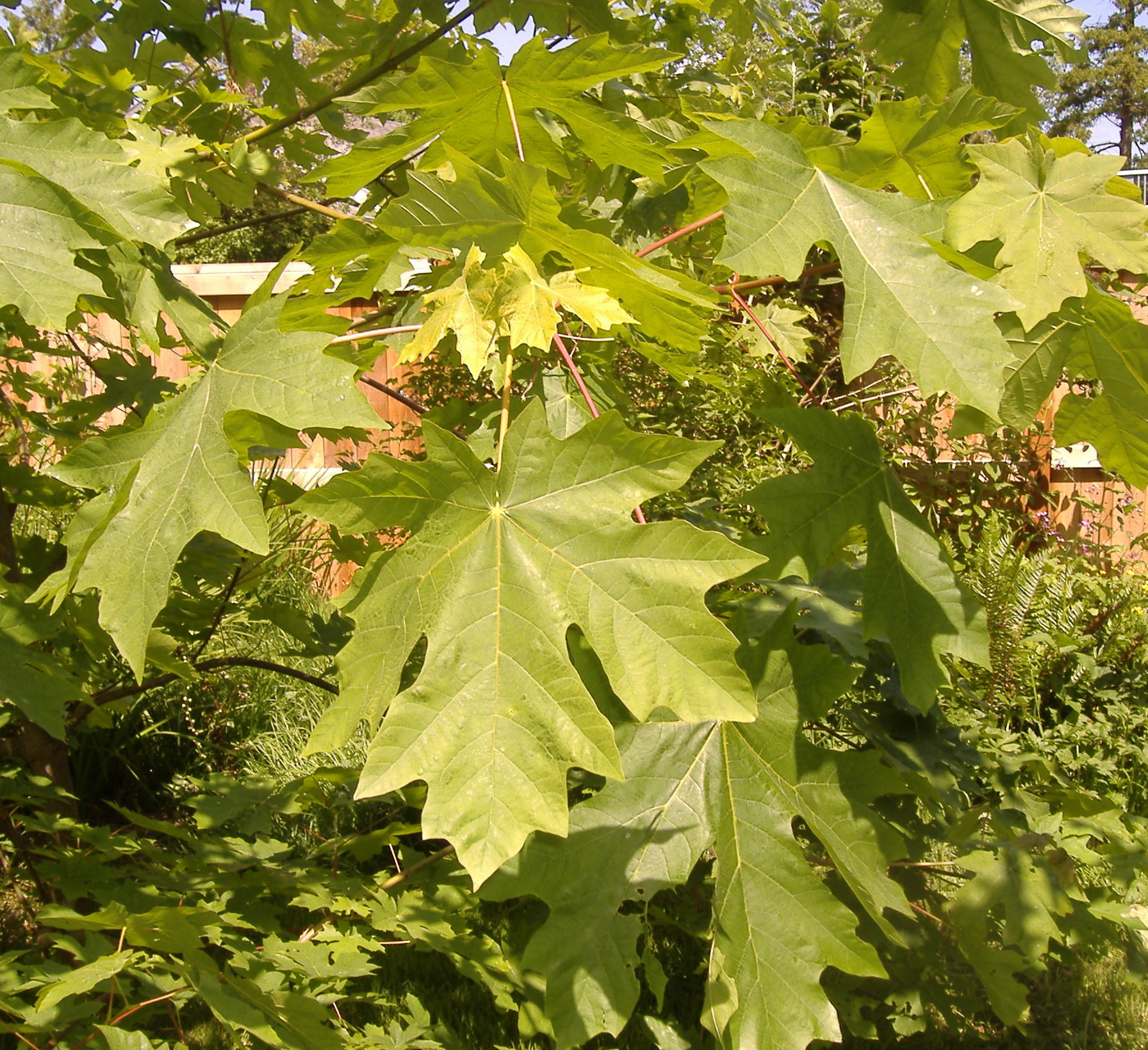 Photo by Tony Perodeau; apparently taken from a planted tree at Sidney, British Columbia